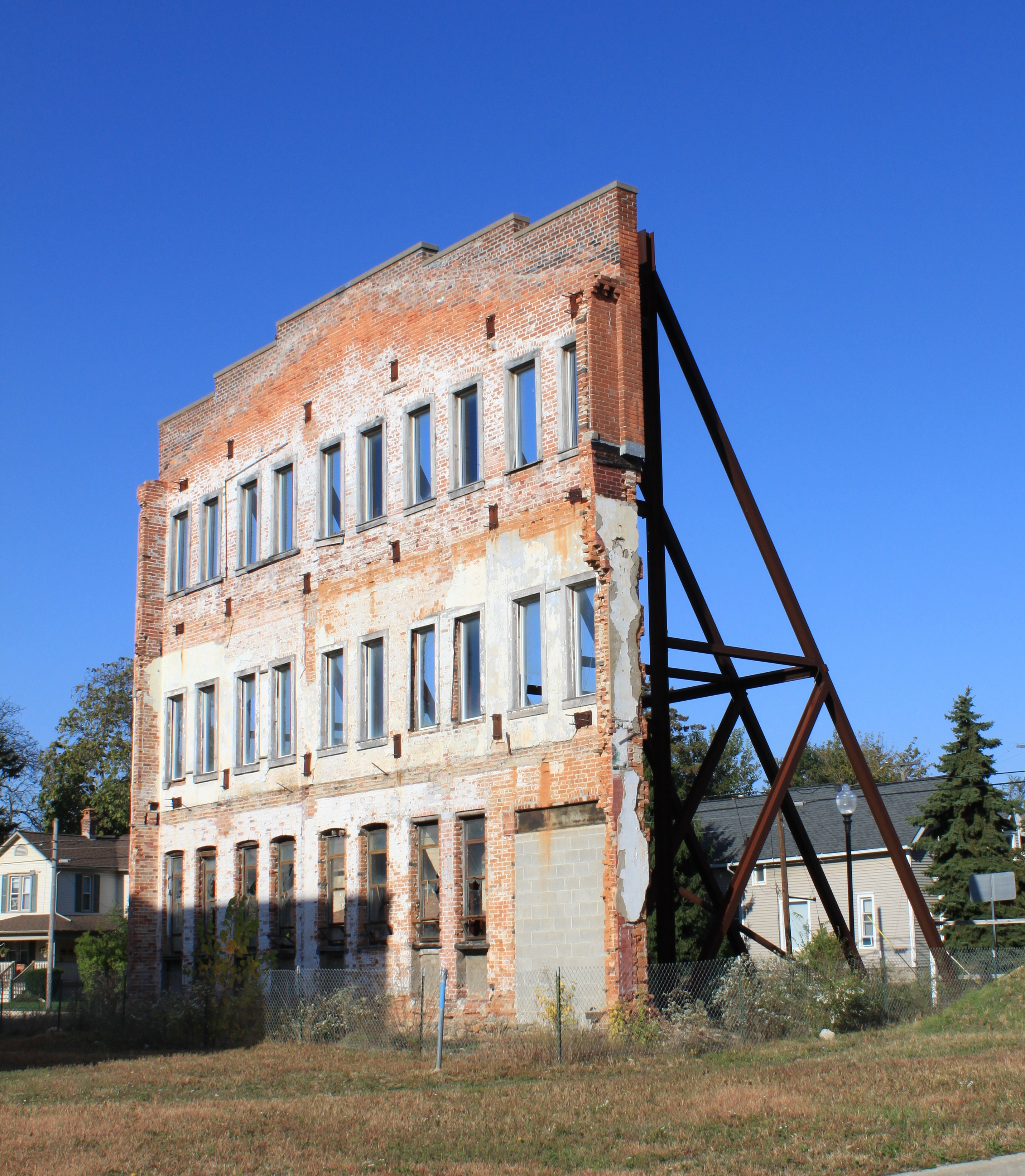 Daisy BB Gun Factory, facade wall and steel bracing. (Demolished November 18, 2013) In Plymouth, Michigan.